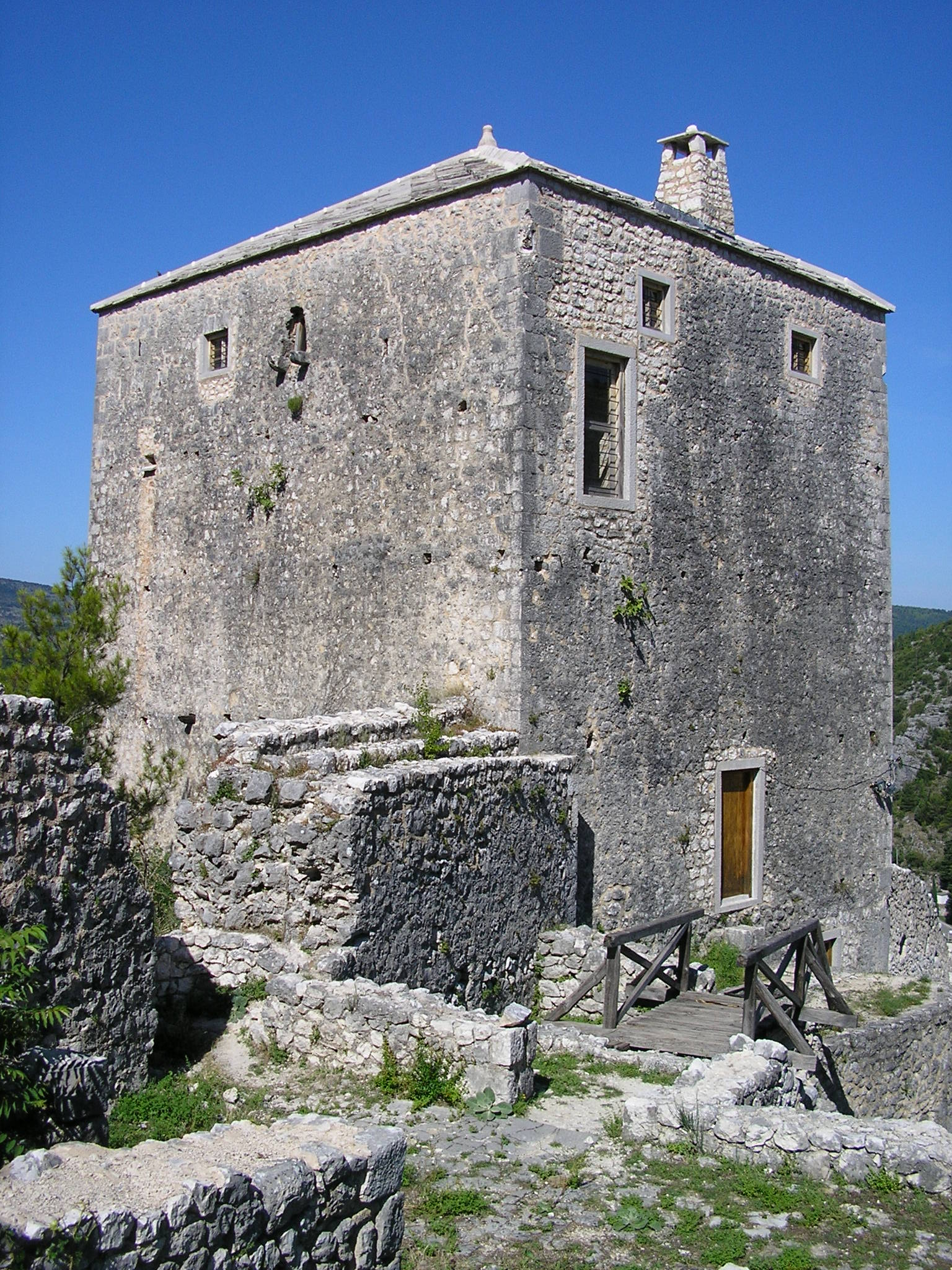 Vidoski, old town Stolac